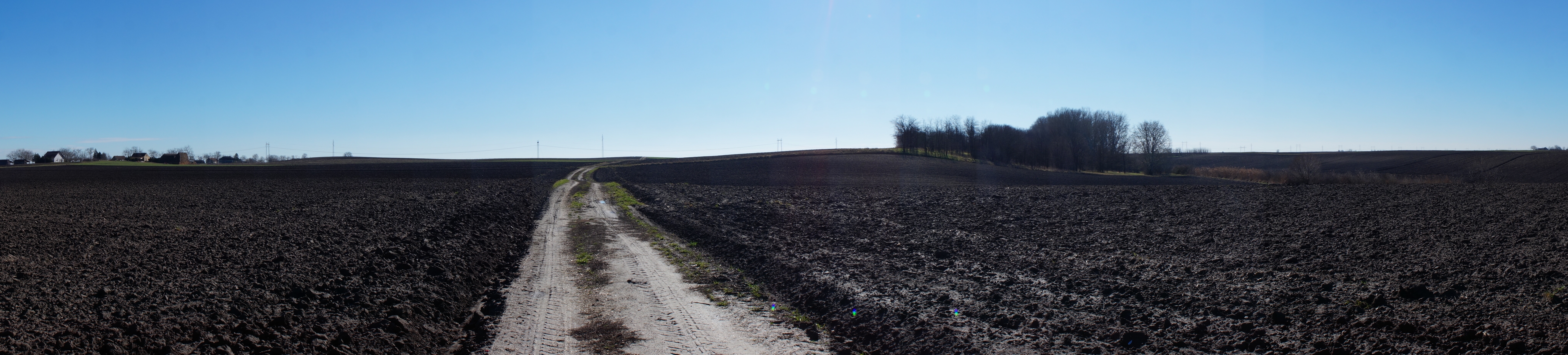 Panoramic view of three kurgans, Mišićevo Serbia